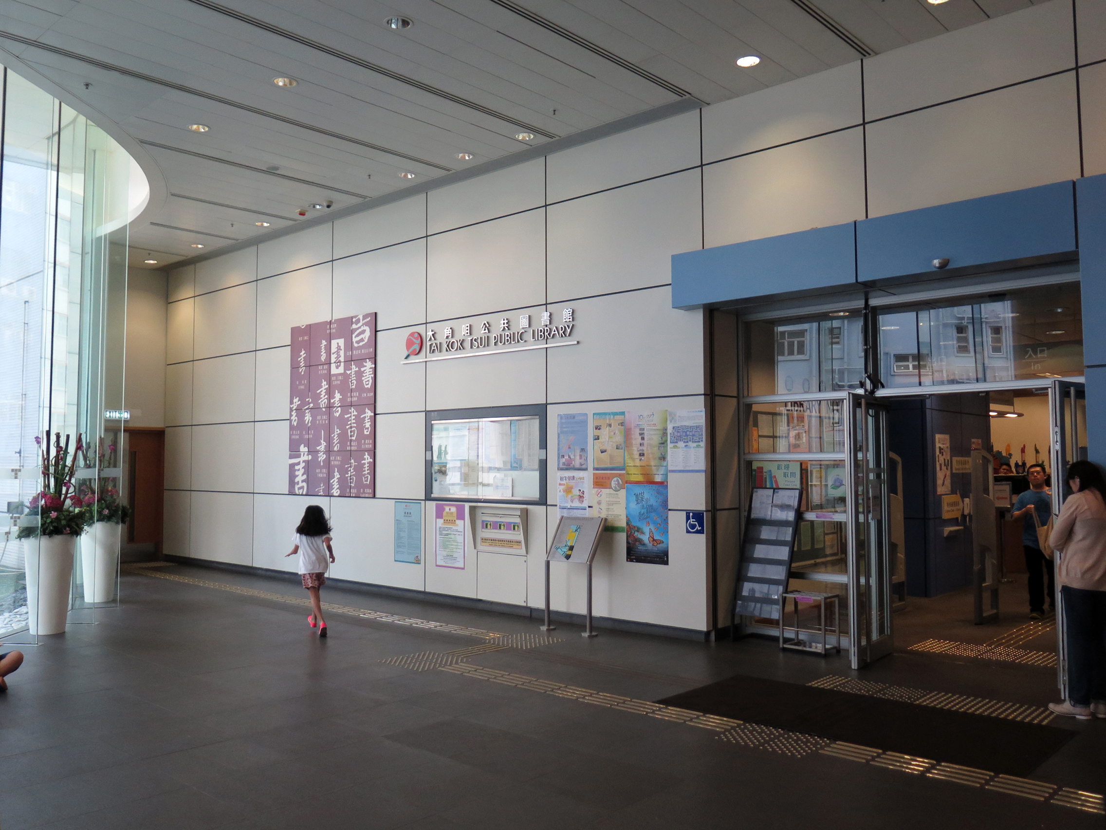 Tai Kok Tsui Municipal Services Building Level 3 Library Entrance